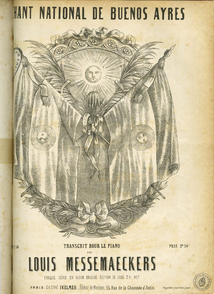 Transcription for piano of the Argentine National Anthem, by Luis Messemaeckers, published in Paris, France.